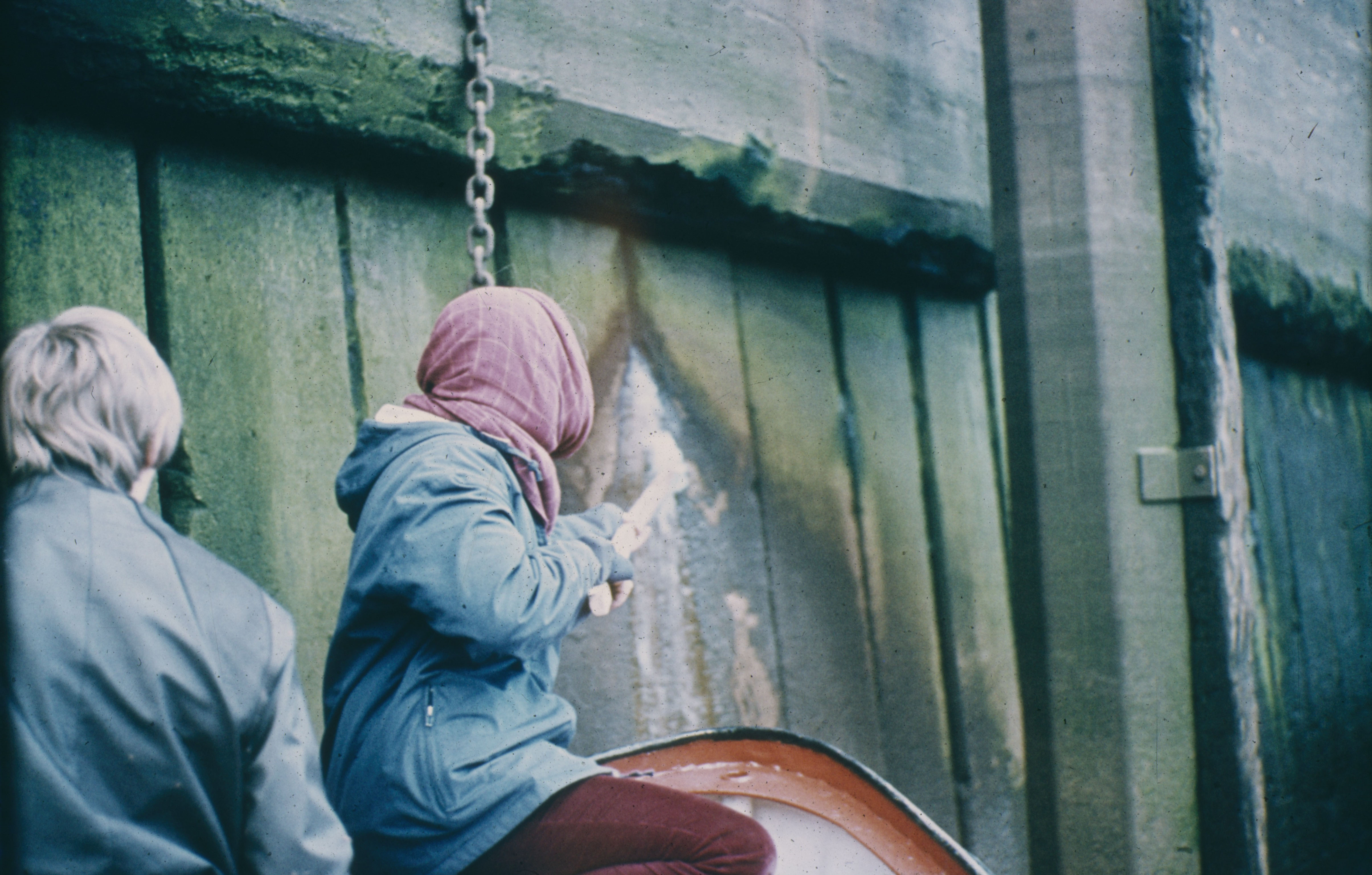 Waste water sampling in the outlets of the Norddeutsche Affinerie in Hamburg.